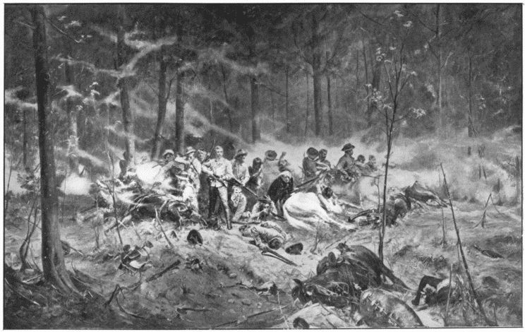 Drawing dated 1900, based on "There Were No Survivors: To the memory of brave men: The last stand of Major Allan Wilson at the Shangani, 4 December, 1893", by Allan Stewart, which was first exhibited in 1896.